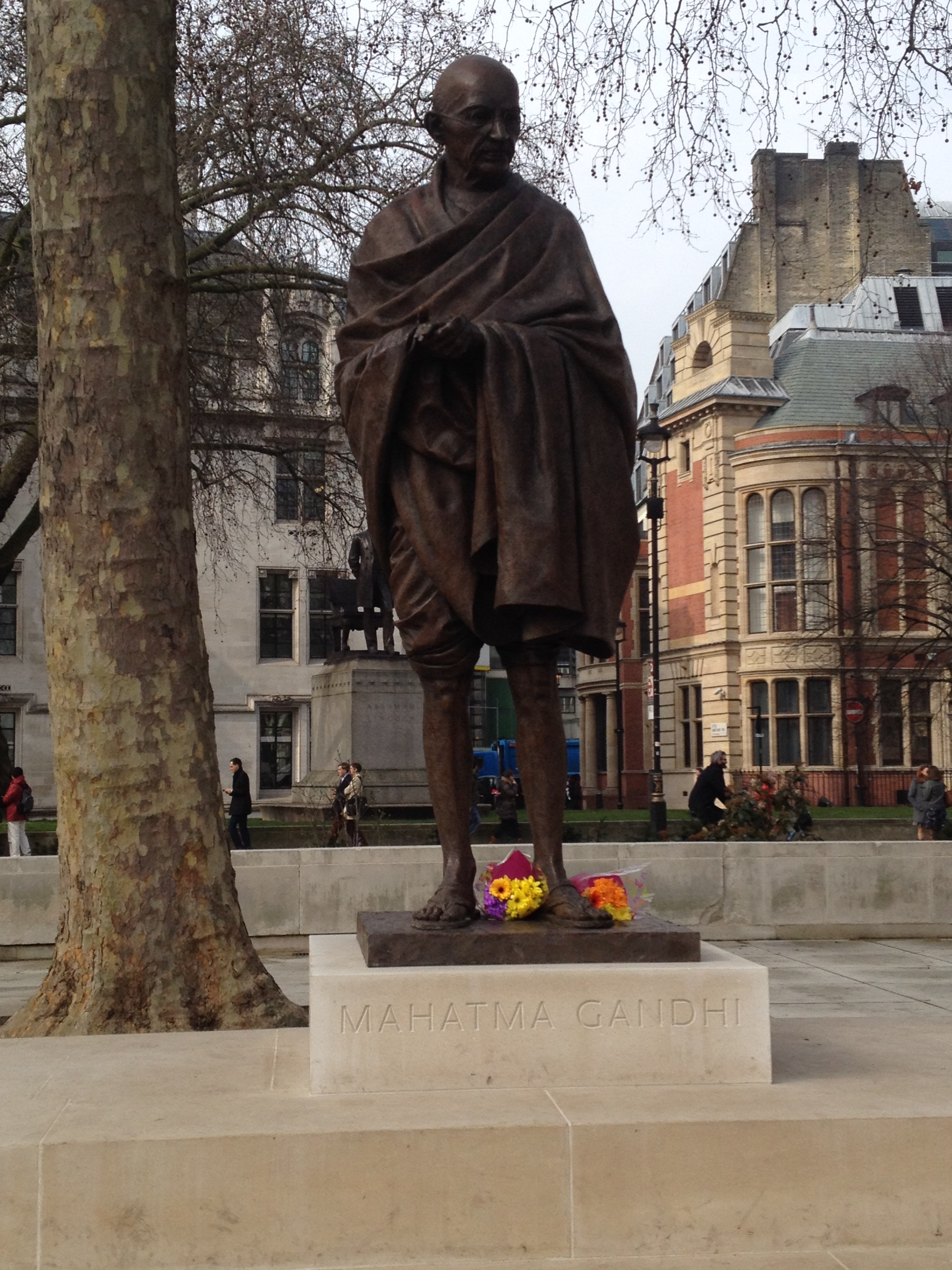 The new statue of Gandhi